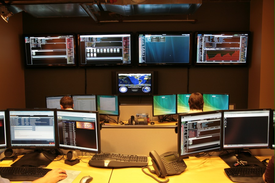 Azaleos NOC